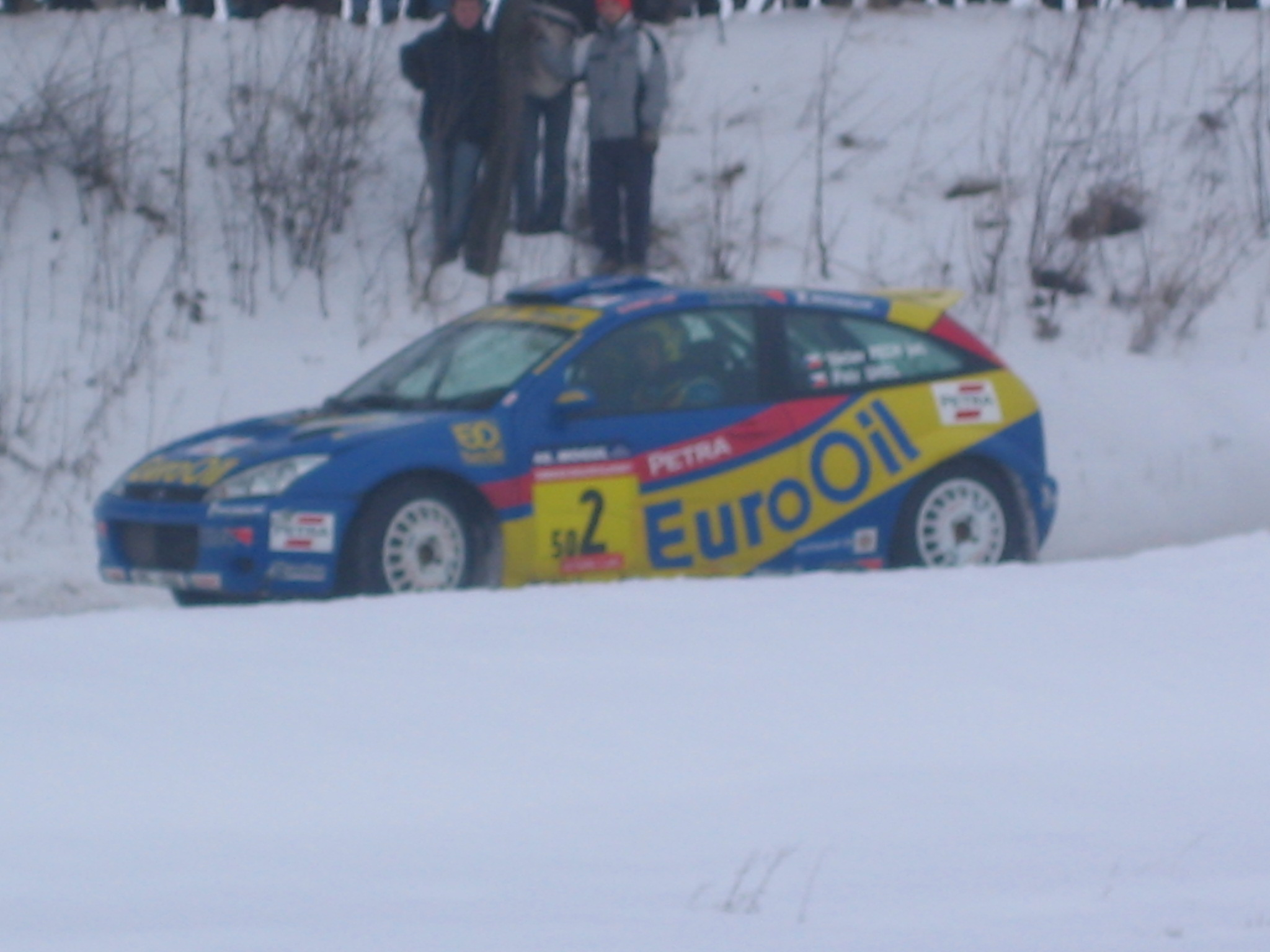 Sumava rallye 2005, Vaclav Pech junior, Ford Focus WRC